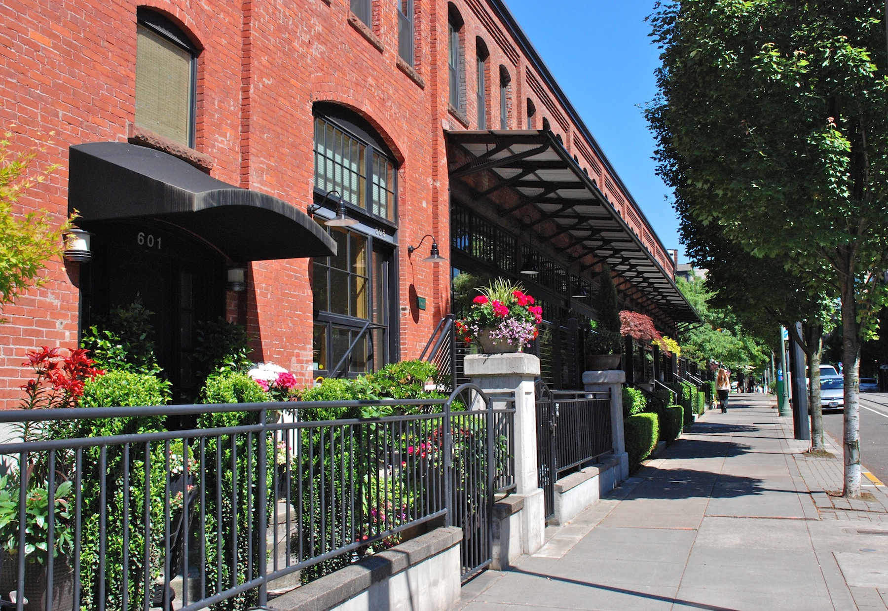 The North Bank Depot, west building, at NW 11th Avenue and Hoyt Street in Portland, Oregon. This and a matching building across the street are listed on the US National Register of Historic Places (NRHP). The buildings were also known as the East and West Freight Houses of the Spokane, Portland and Seattle Railway, the formal name of the North Bank (Rail-) Road. The west building was used only for freight; the east building (not visible here) was also used as a passenger station. In the mid- to late 1990s the buildings were refitted for use as residential dwellings.